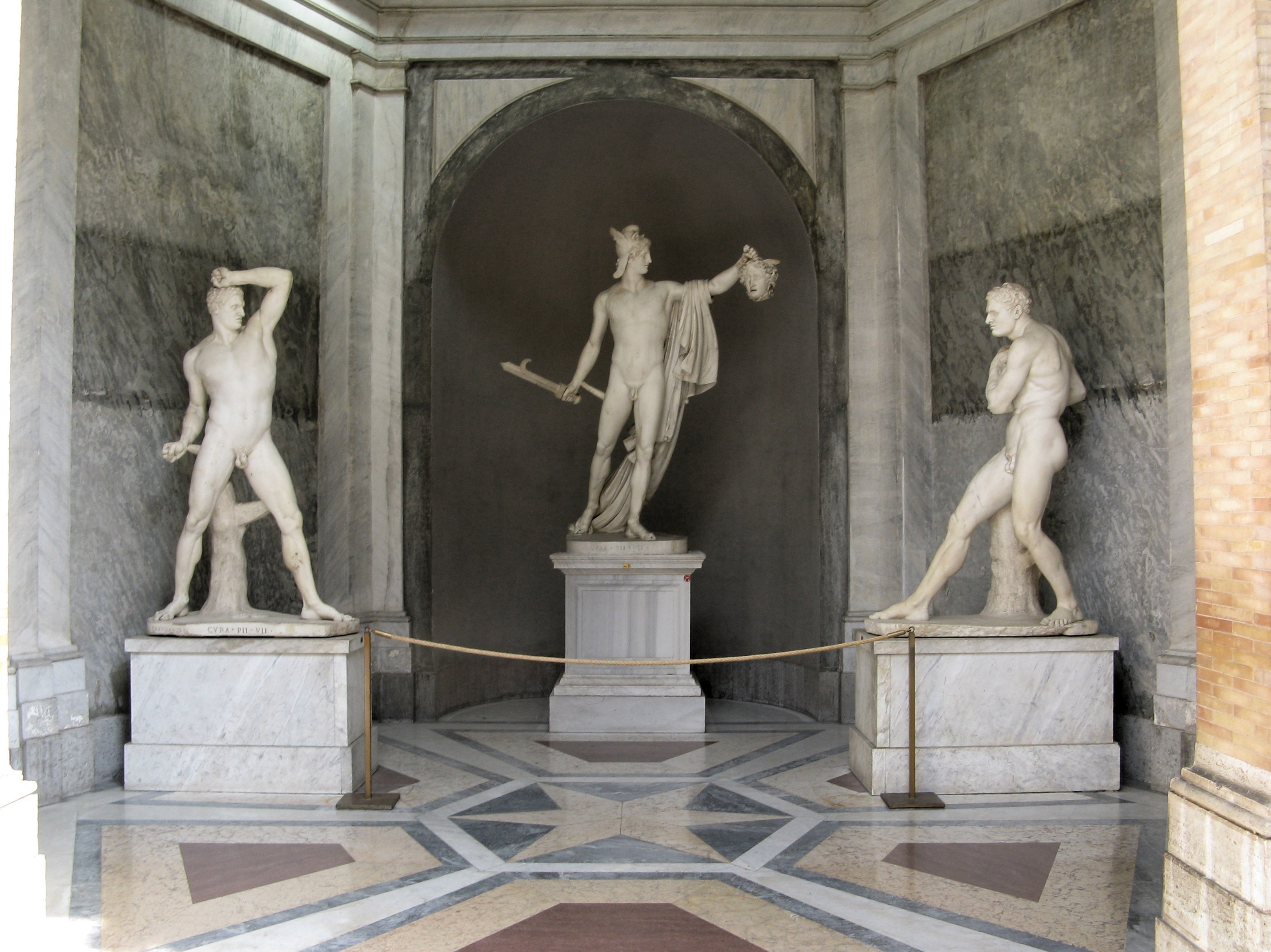 Perseus and the head of Medusa, Statue of the boxer Creugas and Statue of the boxer Damoxenos by Antonio Canova in Vatican Museums.